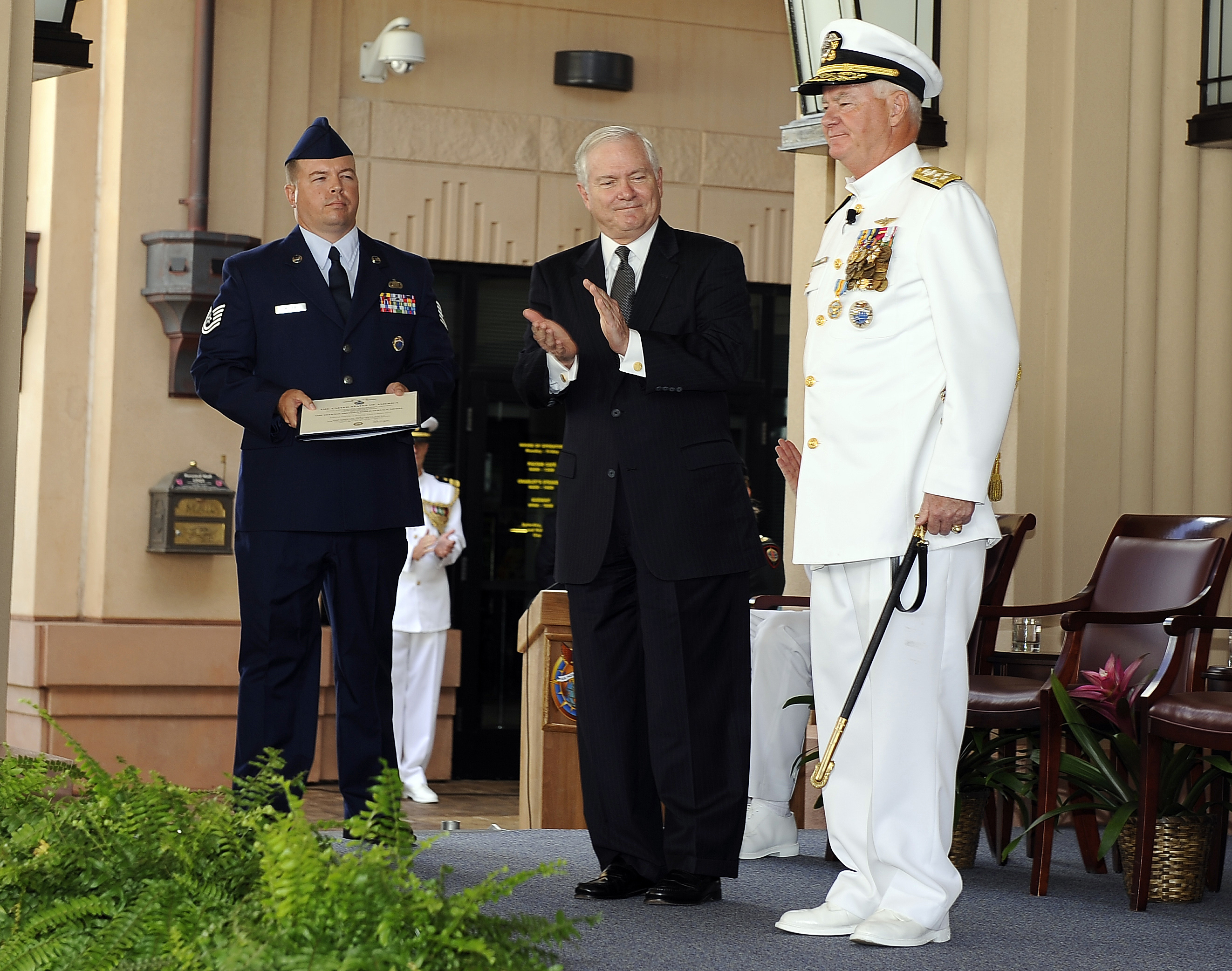 Secretary of Defense Robert M. Gates applauds outgoing Pacific Command Commander Adm. Timothy J. Keating after presenting him the Defense Distinguished Service Medal during the Pacific Command change of command ceremony at Camp Smith in Honolulu, Hawaii, on Oct. 19, 2009.